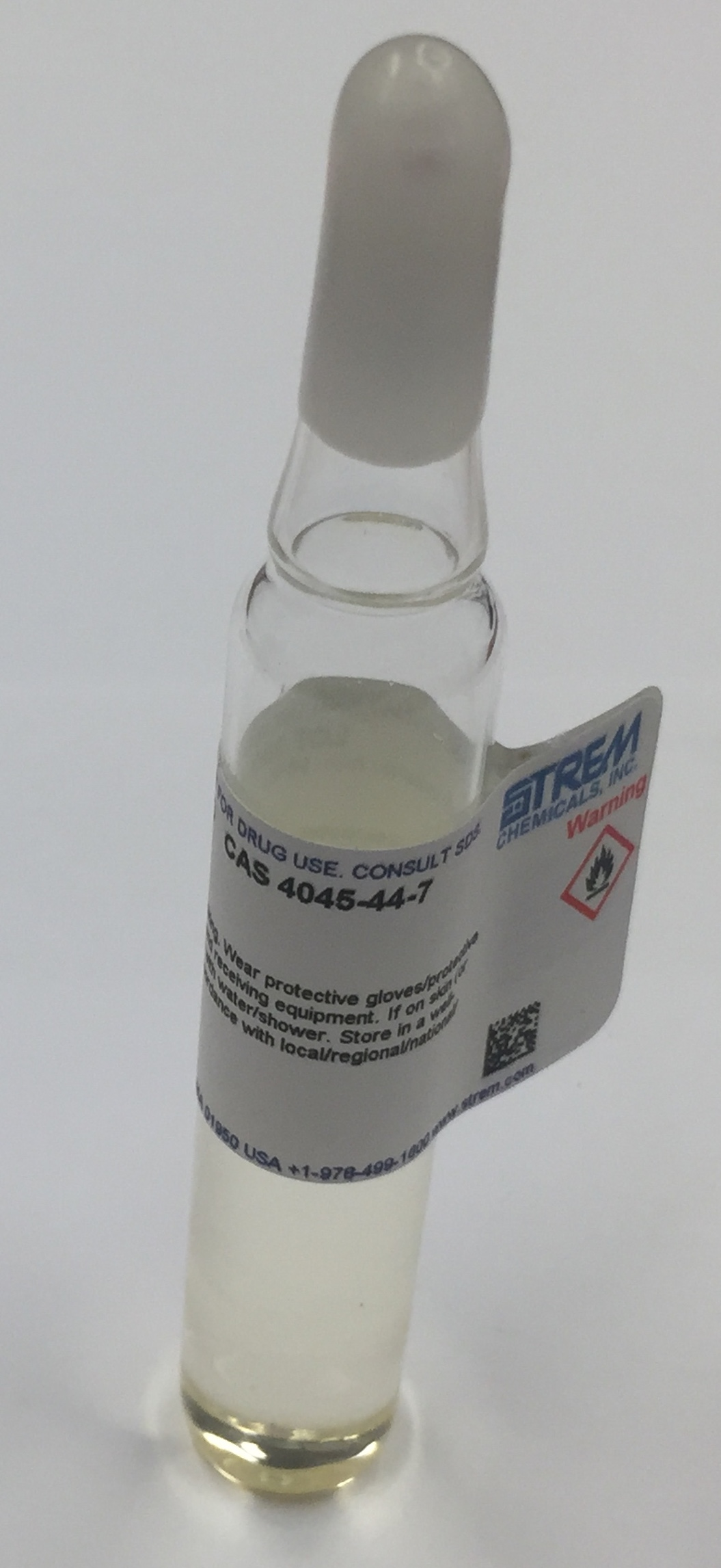 Sample of pentamethylcyclopentadiene in ampoule.